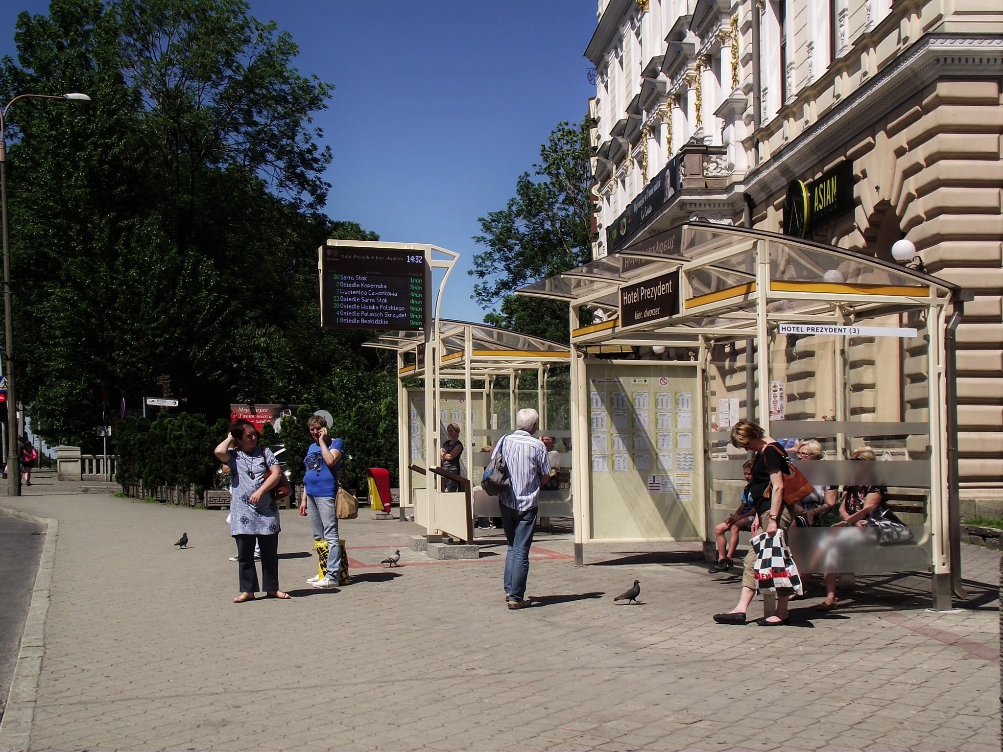 "Hotel Prezydent", most frequented bus stop in Bielsko-Biała, Poland.